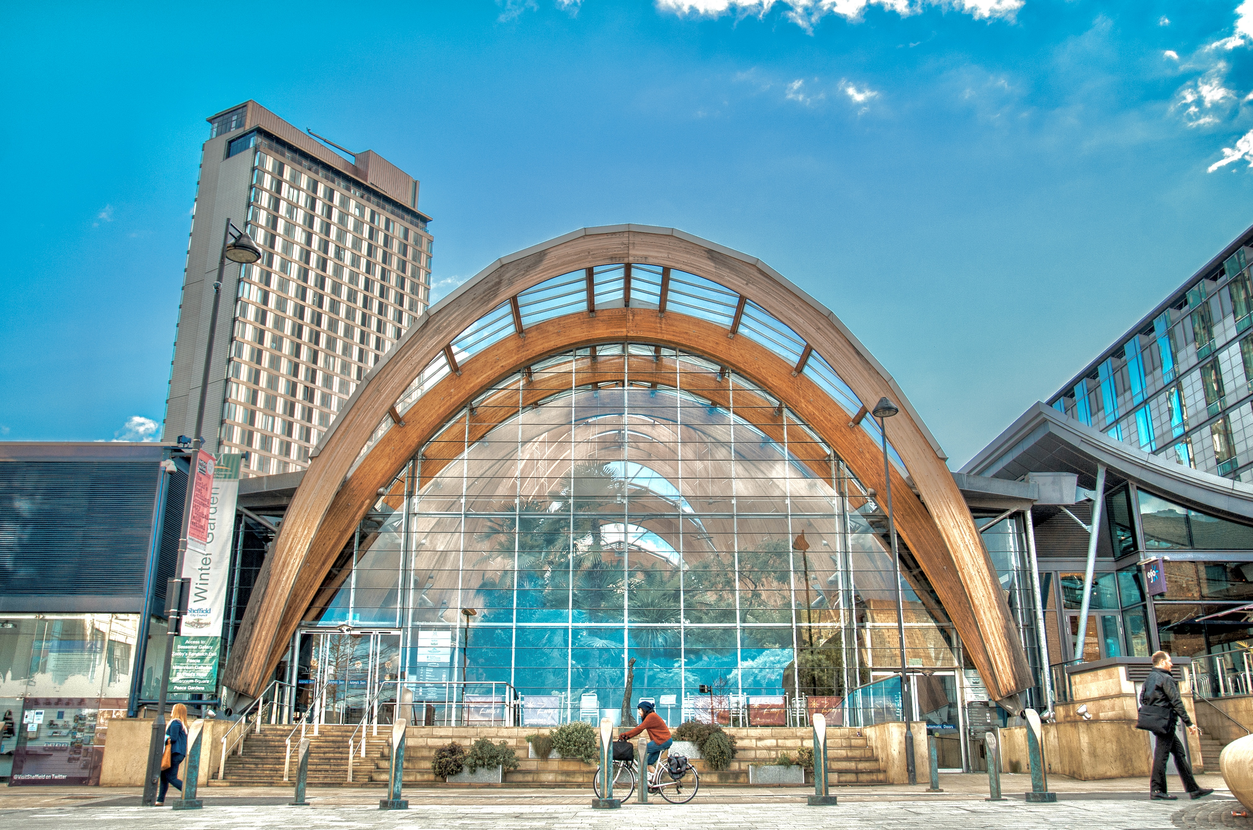 As seen from Tudor Square.